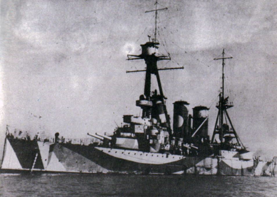 RHNS Averof on RN Station, Bombay Harbor, India, 1942, while serving under Royal Navy Command (as whole Royal Hellenic Navy).